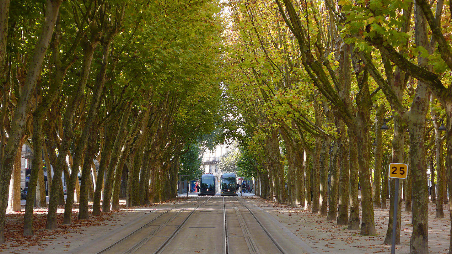 Two Citadis 302 of Line C at quinconces